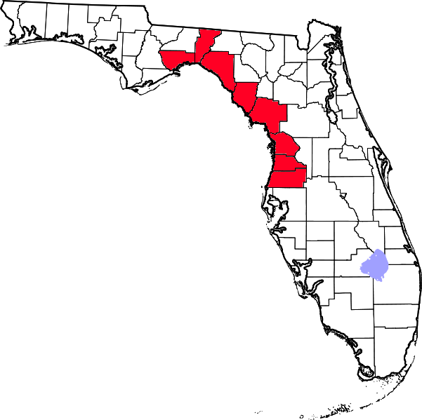 Map of Florida showing the Nature Coast of Florida highlighted in red.